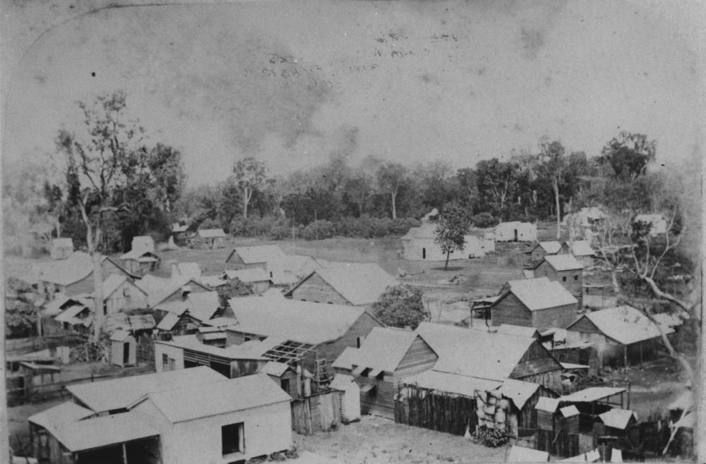 China Town, Cairns, 1886. View overlooking the buildings of China Town in Cairns, Queensland, 23 April 1886. The buildings are simple in design, made of timber with gabled rooves.